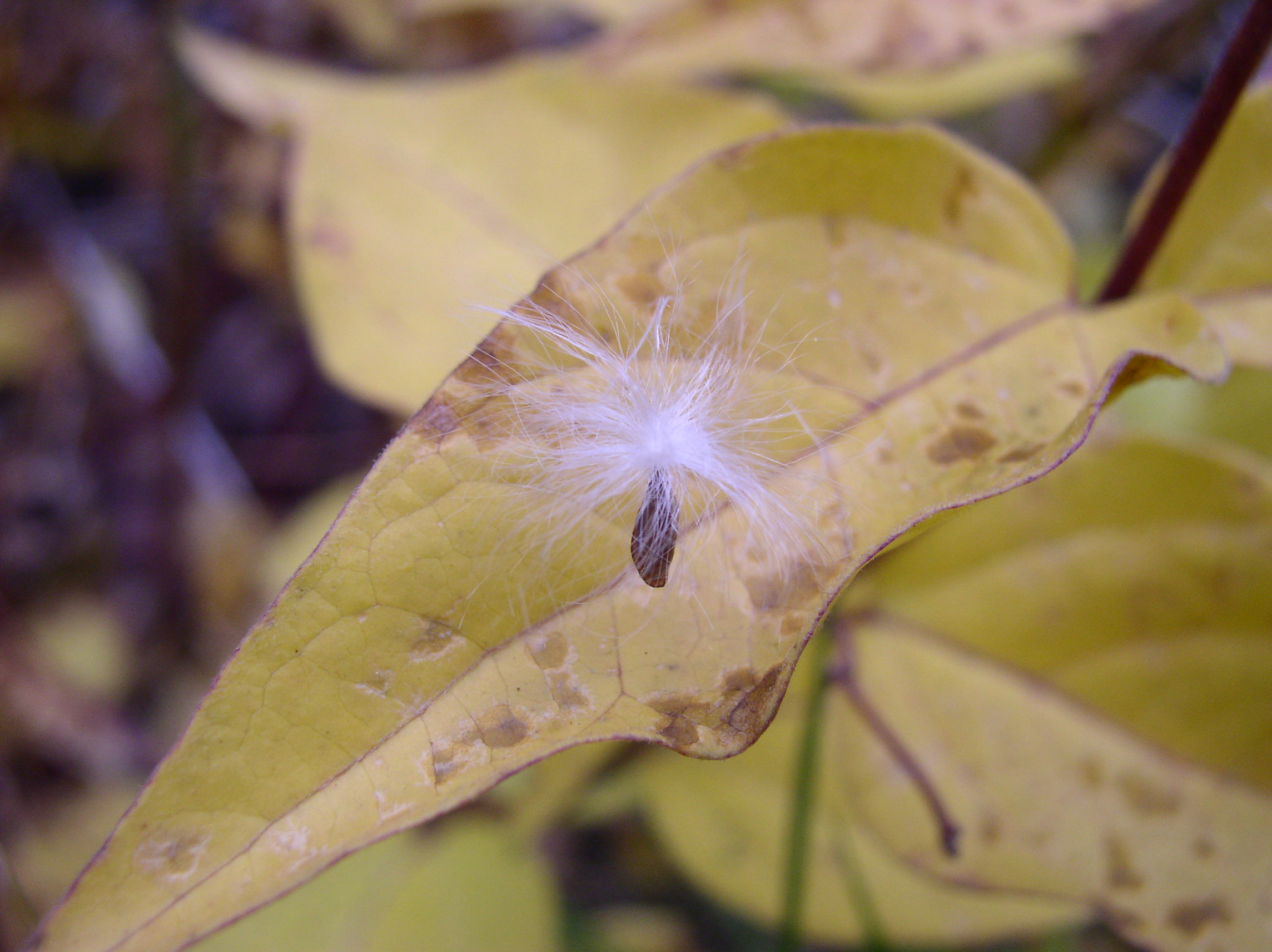 A Vincetoxicum hirundinaria seed on top of a leaf of the same plant ready to fly in Turku, Finland.